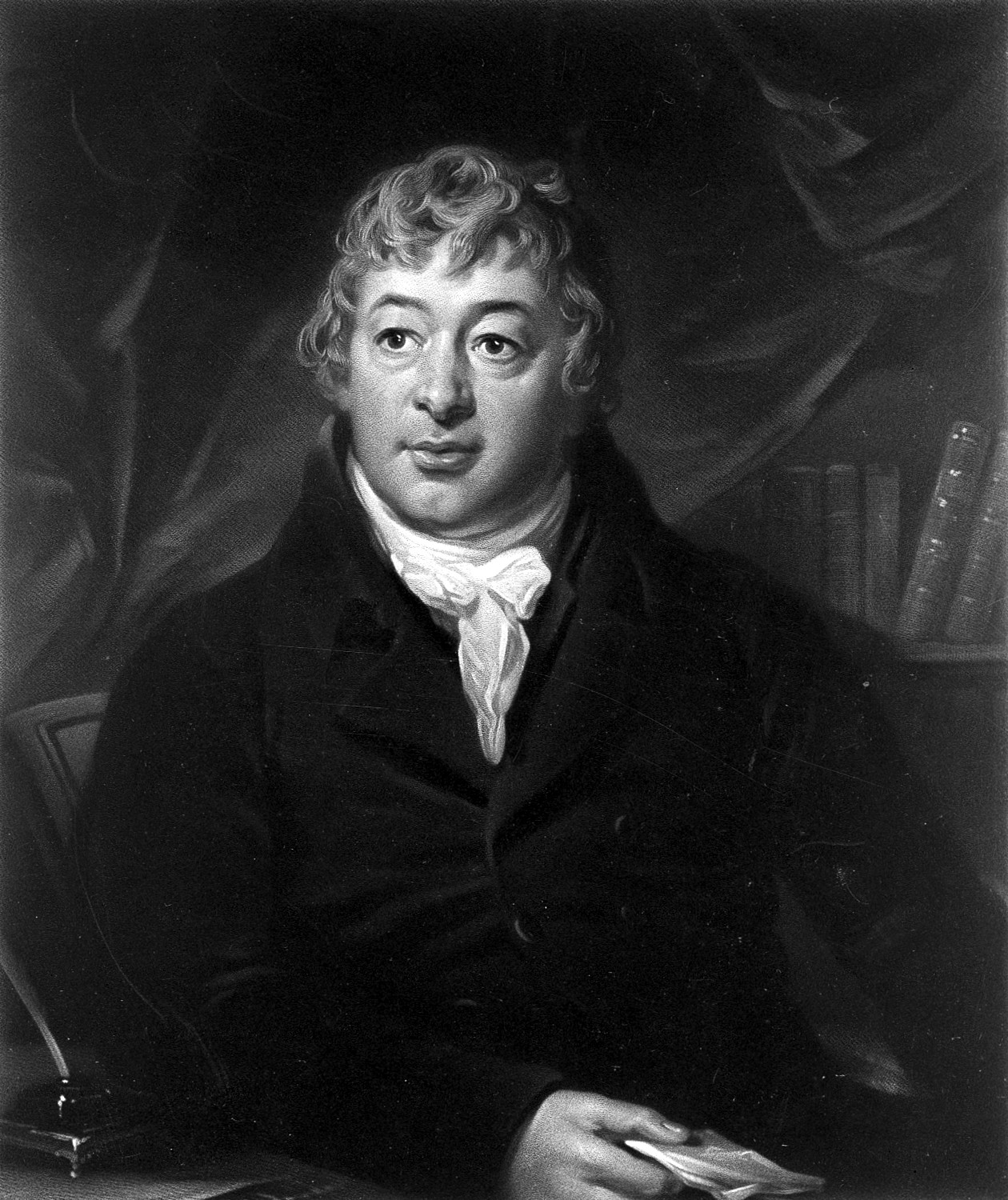 John Hull. Mezzotint by H. Cousins, 1808, after J. Allen. Iconographic Collections Keywords: John Hull; J. Allen; H. Cousins